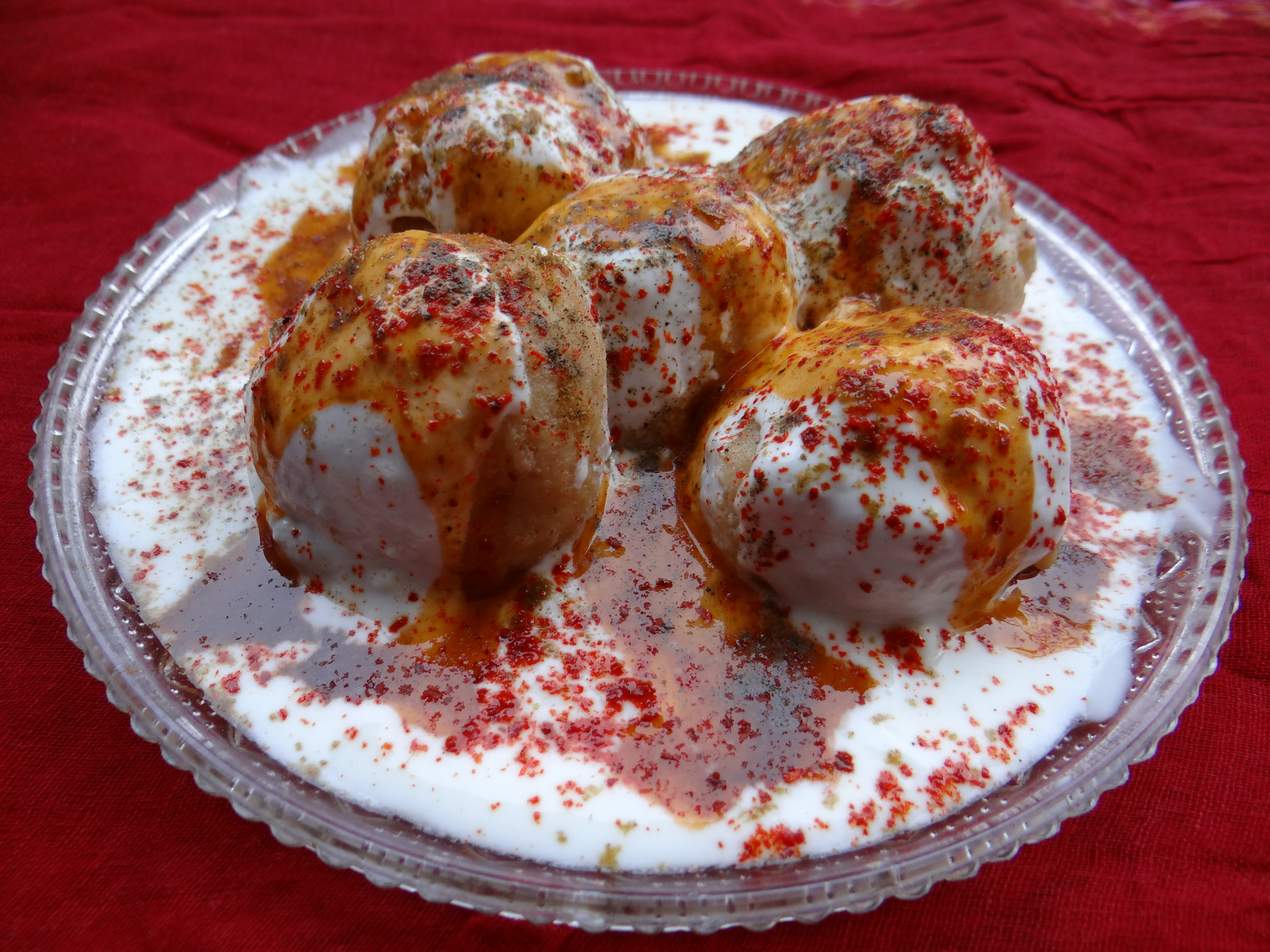 Dahi vadas or Dhai Bhalla can be eaten as a snack or as part of the meal. It is a dish famous all over India.